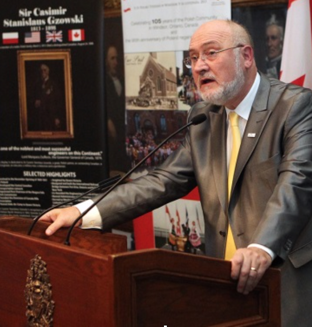 Jerzy (Jerry) Barycki speaking in the Parliament of Canada, Ottawa, 2013